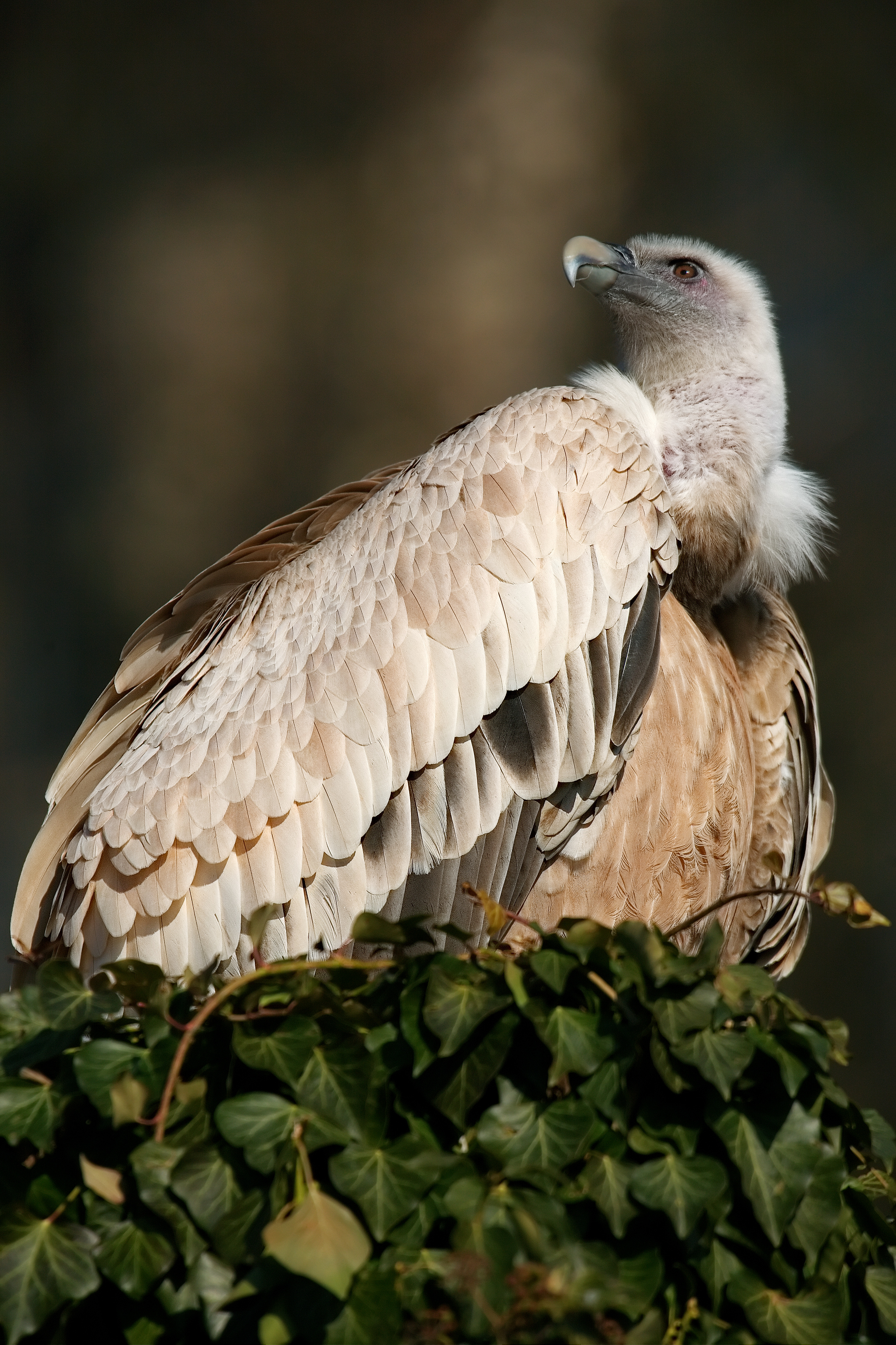 Griffon Vulture (also known as the Eurasian Griffon Vulture) at Salzburg Zoo, Austria. Several of these birds live around the zoo and are not caged; however, they are supported by the zoo which provides food for them on a regular basis. (in German).